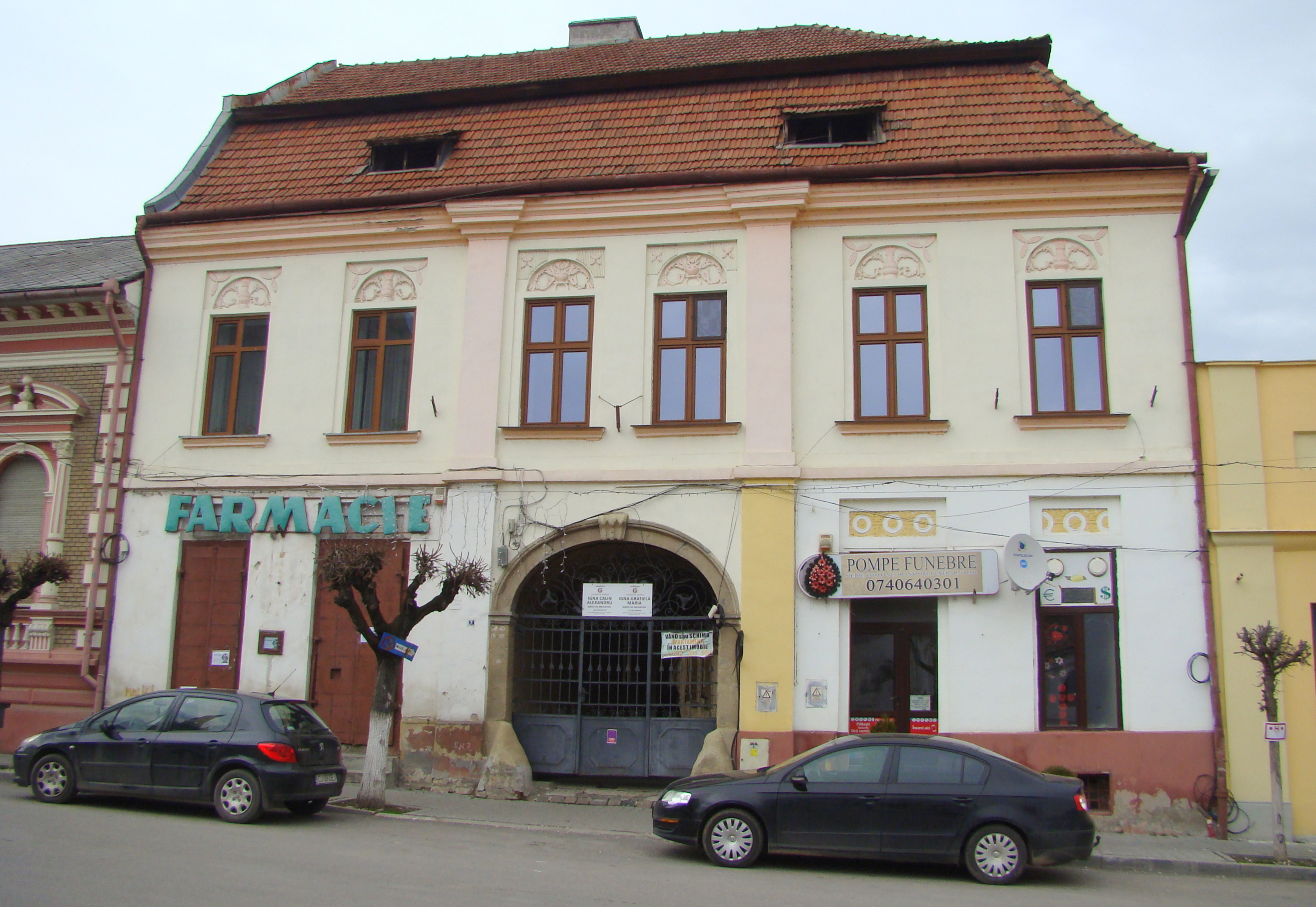 House, historic monument in Dej, Bobâlna Square, nr.7